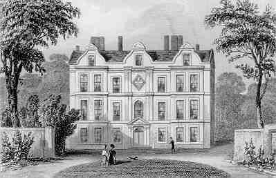 The building now known as Kew Palace in 1835, originally known as the "Dutch House" because of its Dutch gables.